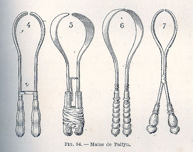 Palfyn "hands" in different models